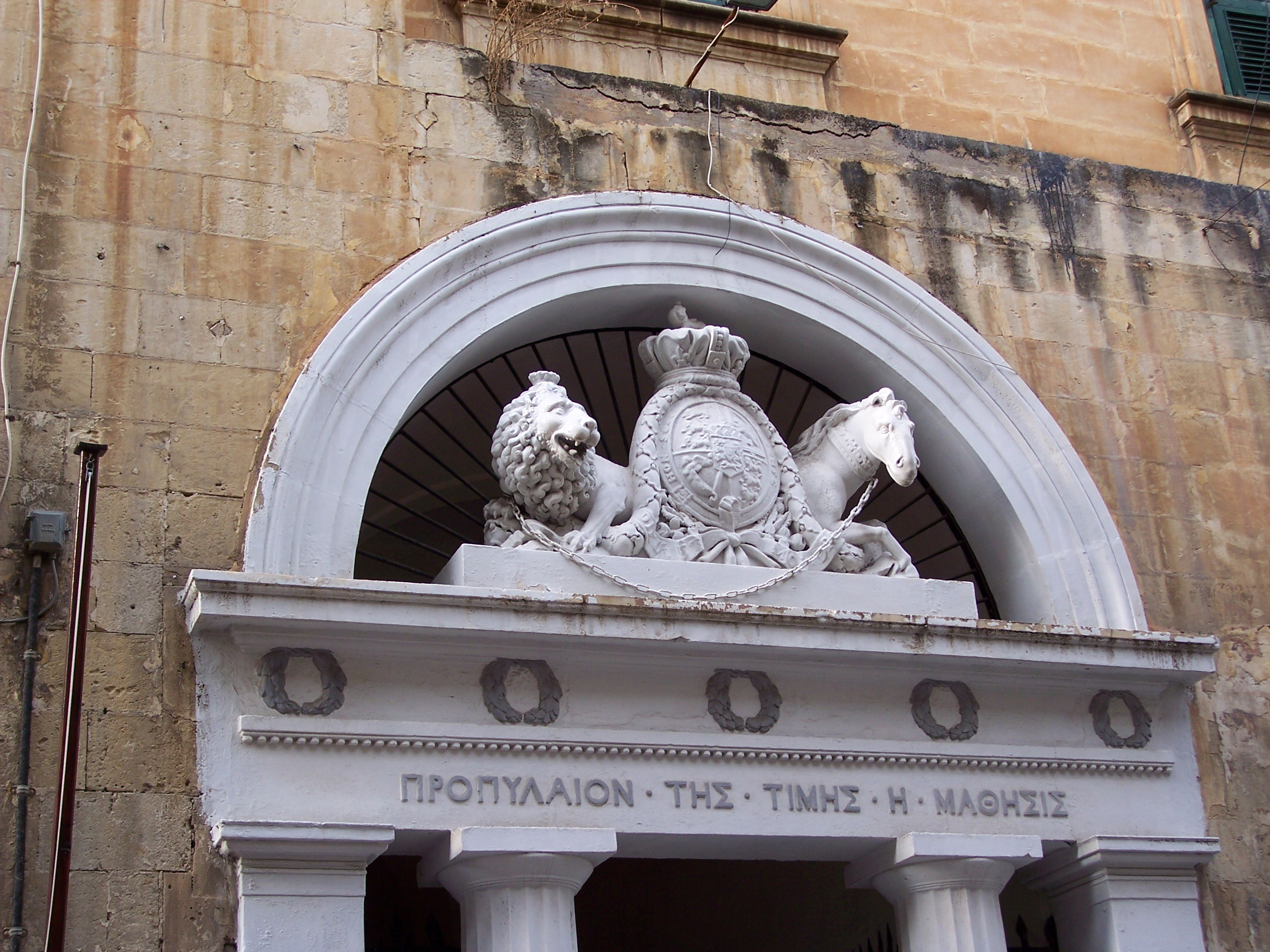 Entrance to the Old University building, formerly the Royal University of Malta, St Pauls Street, La Valletta